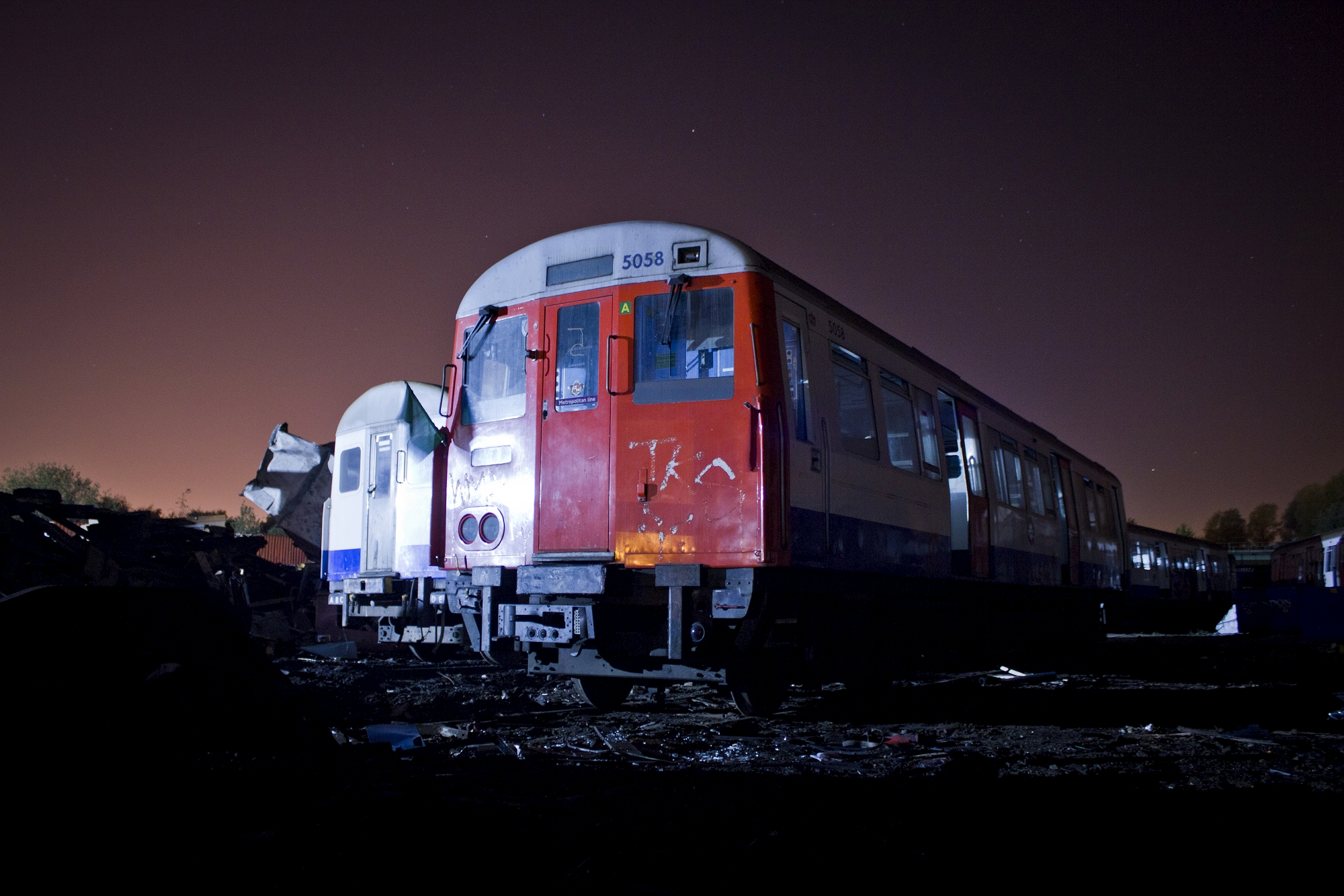 Train of refurbished A Stock at C F Booths in Rotherham, waiting to be scrapped.